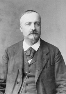 French physicist Alfred Cornu (1849-1902)